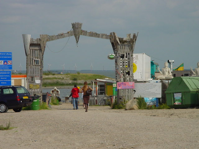 Entrance to Blijburg at IJburg The Netherlands